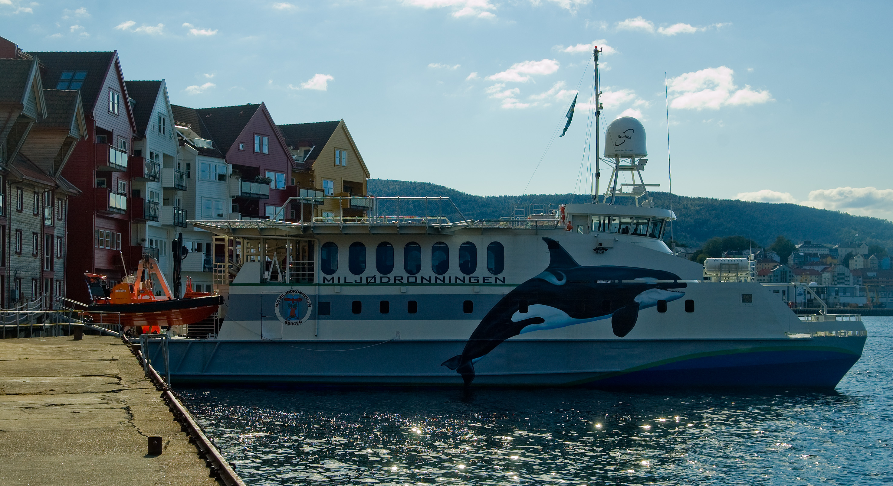 "Miljødronningen", a ship owned by the Green Warriors of Norway. According to them, it is "the least environmentally damaging ship in the world". IMO Number: 9419345 MMSI Number: 259549000 Callsign: LCBD Length: 34 m Beam: 10 m